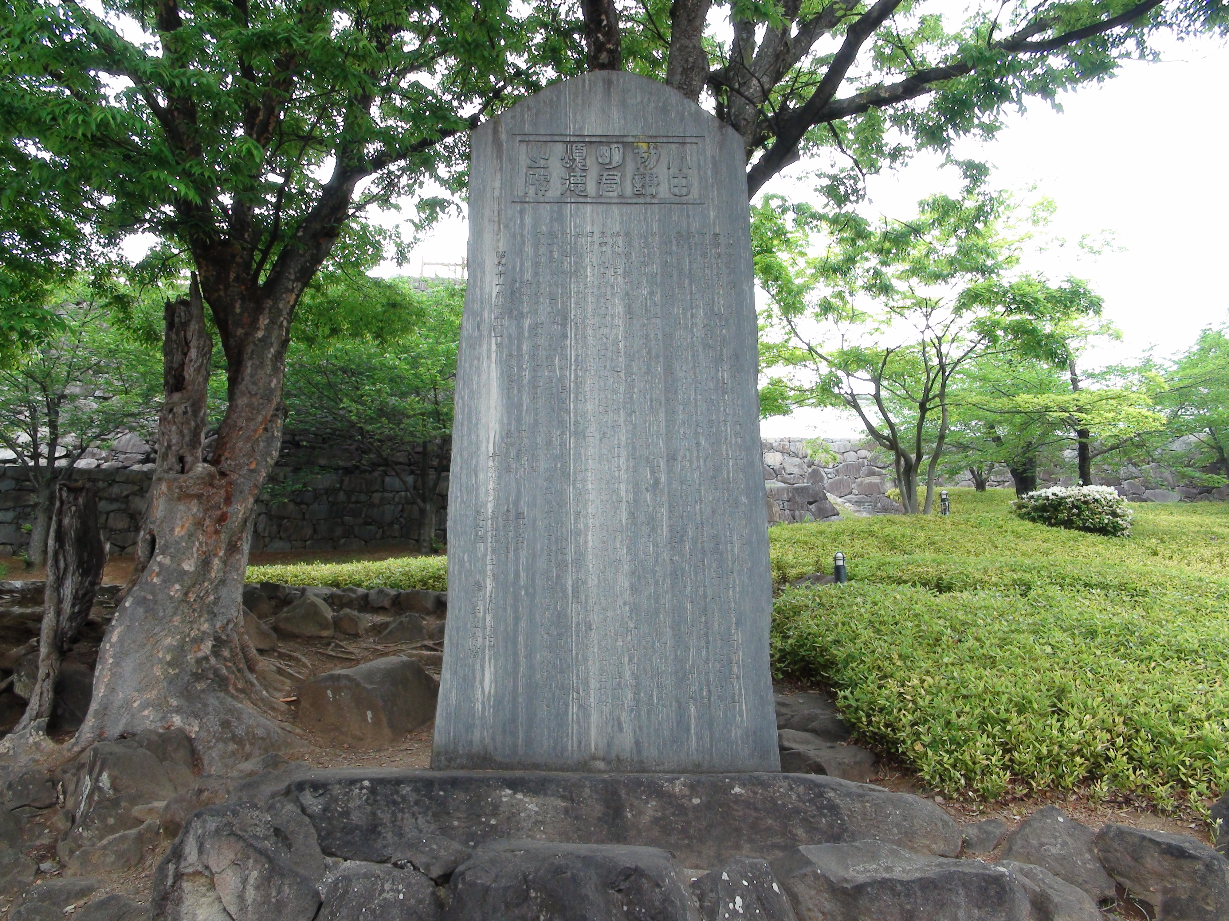 Monument of Kenmei Otagiri. Kofu castle was built in 1936